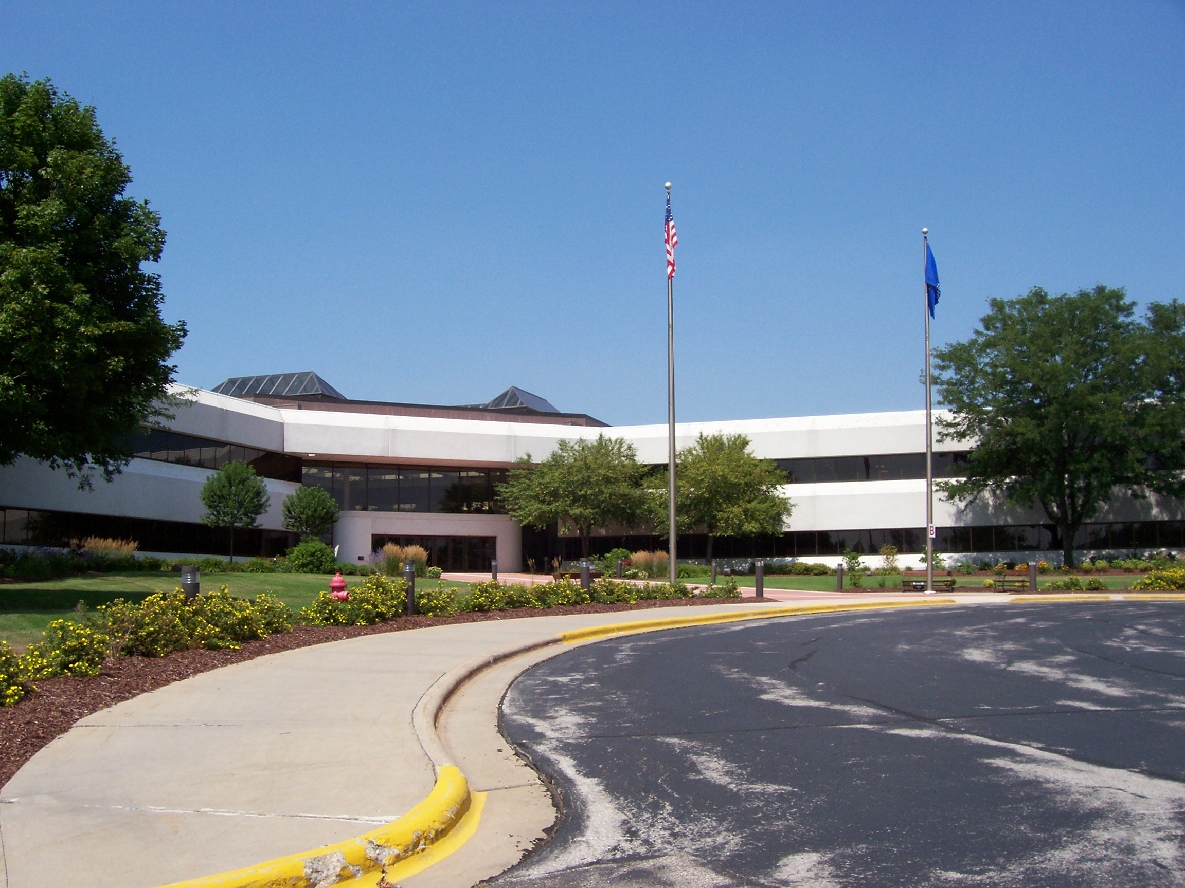 The entrance for Humana in De Pere, Wisconsin, USA.